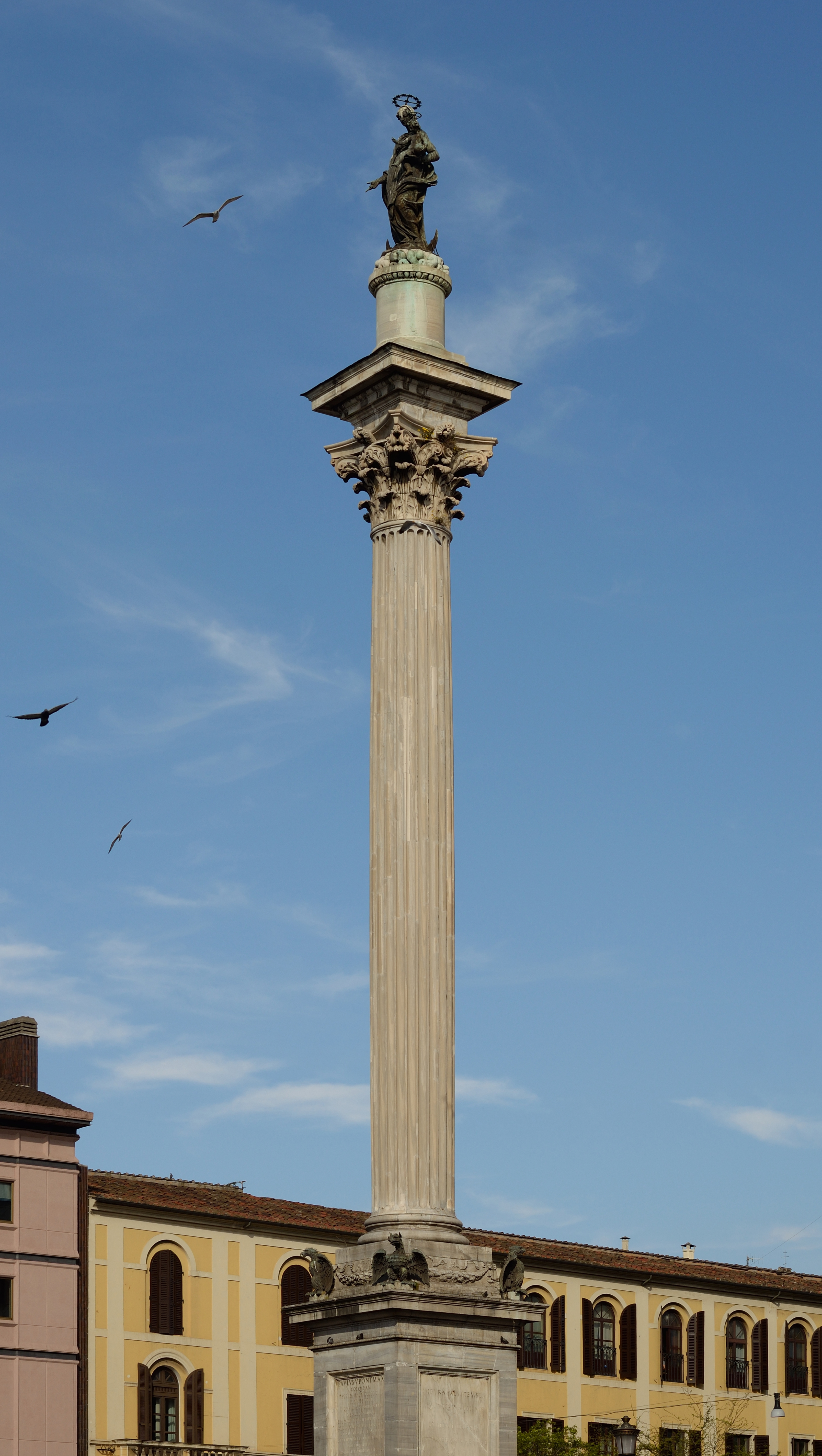 Column of Peace (Rome)